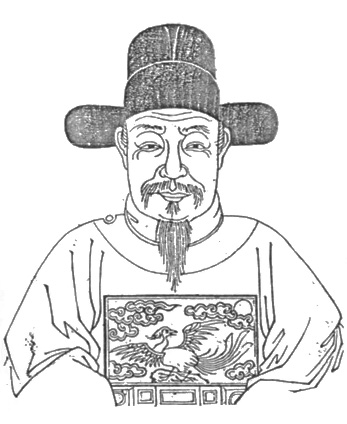 Bao Nan, politician of the Ming Dynasty.